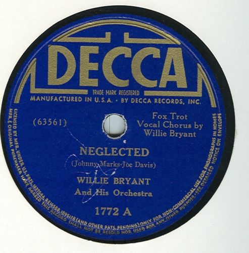 Willie Bryant 1938 - Neglected/On the Alamo Decca 78s